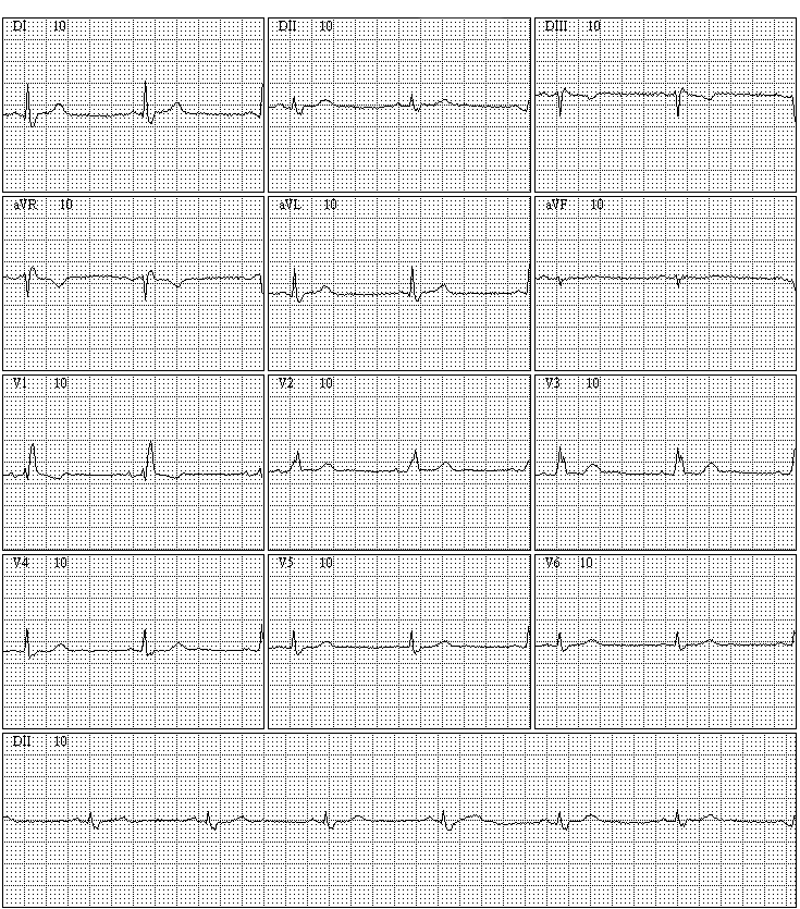 Right bundle branch block